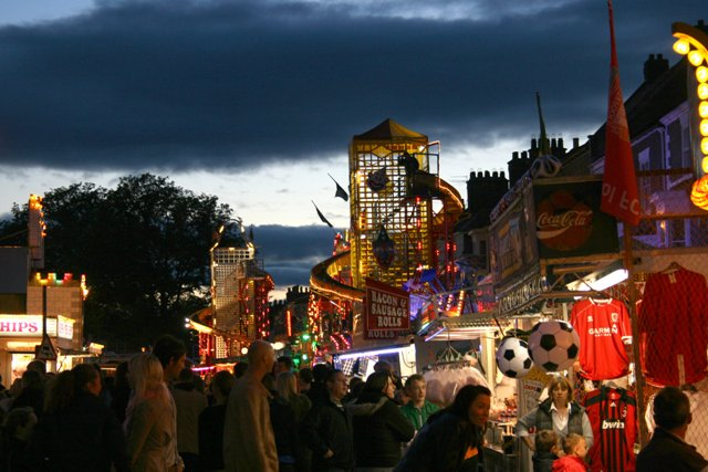 Stokesley Fair 2007 Looking down the High Street.